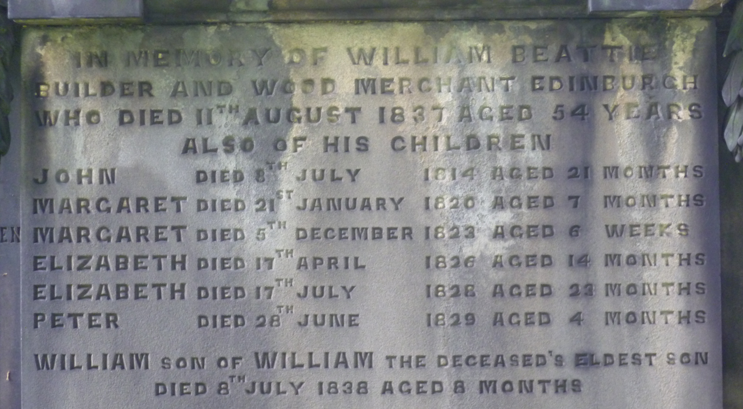 The gravestone of William Beattie and family in St. Cuthbert's Kirkyard reveals the high rate of infant mortality in Edinburgh in the first half of the 19th century.